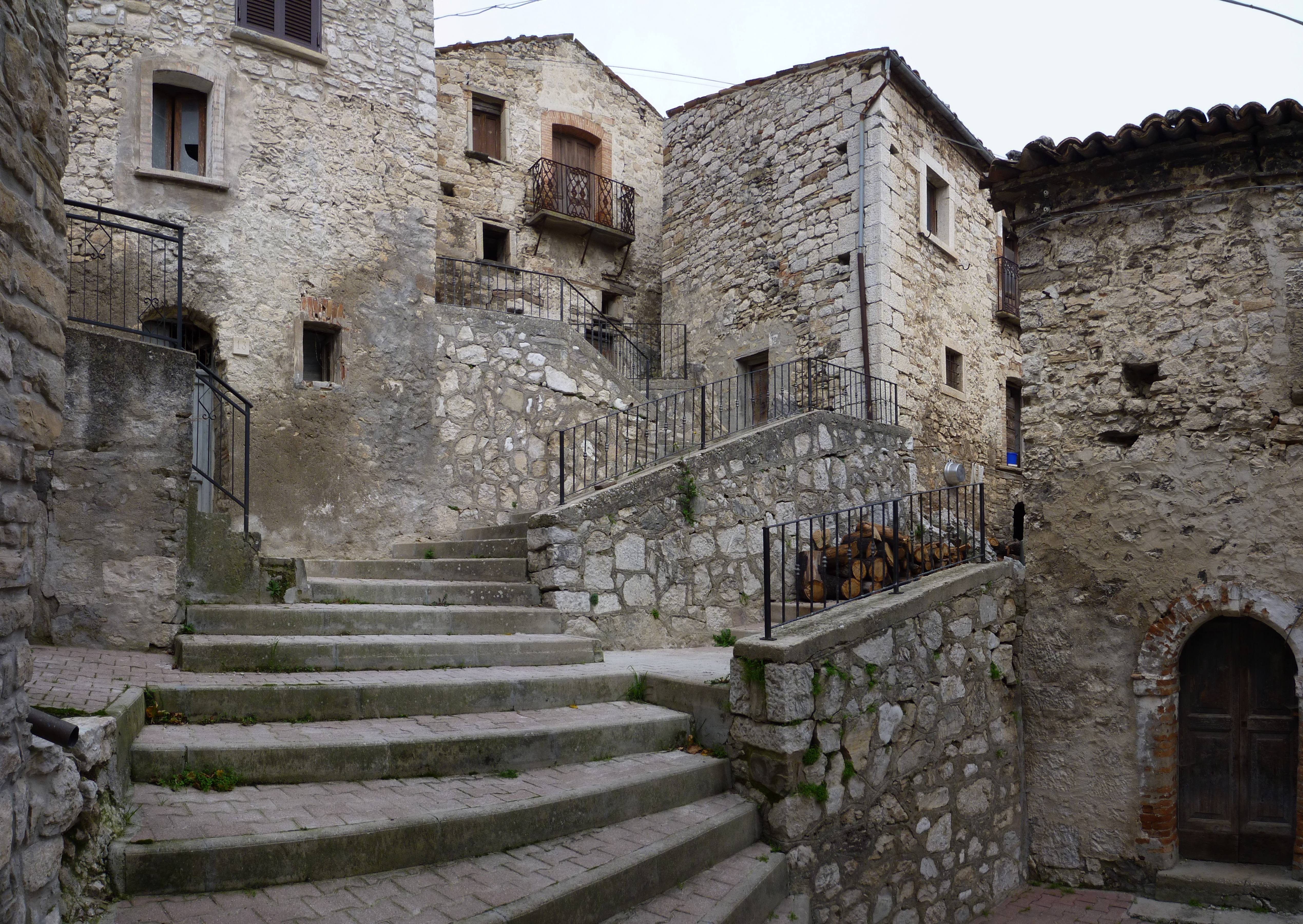 A glimpse of the historic center of Montelapiano, in the province of Chieti, Abruzzo.